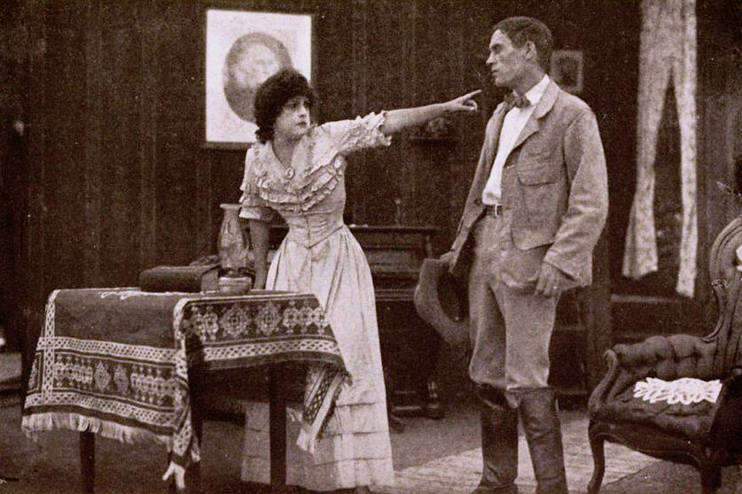 Still from the American film Salomy Jane (1914) with Beatriz Michelena and William Nigh, facing page 72 of the 1915 edition of the Bret Harte novel. Caption: The scorn in the girl's eyes flayed him.